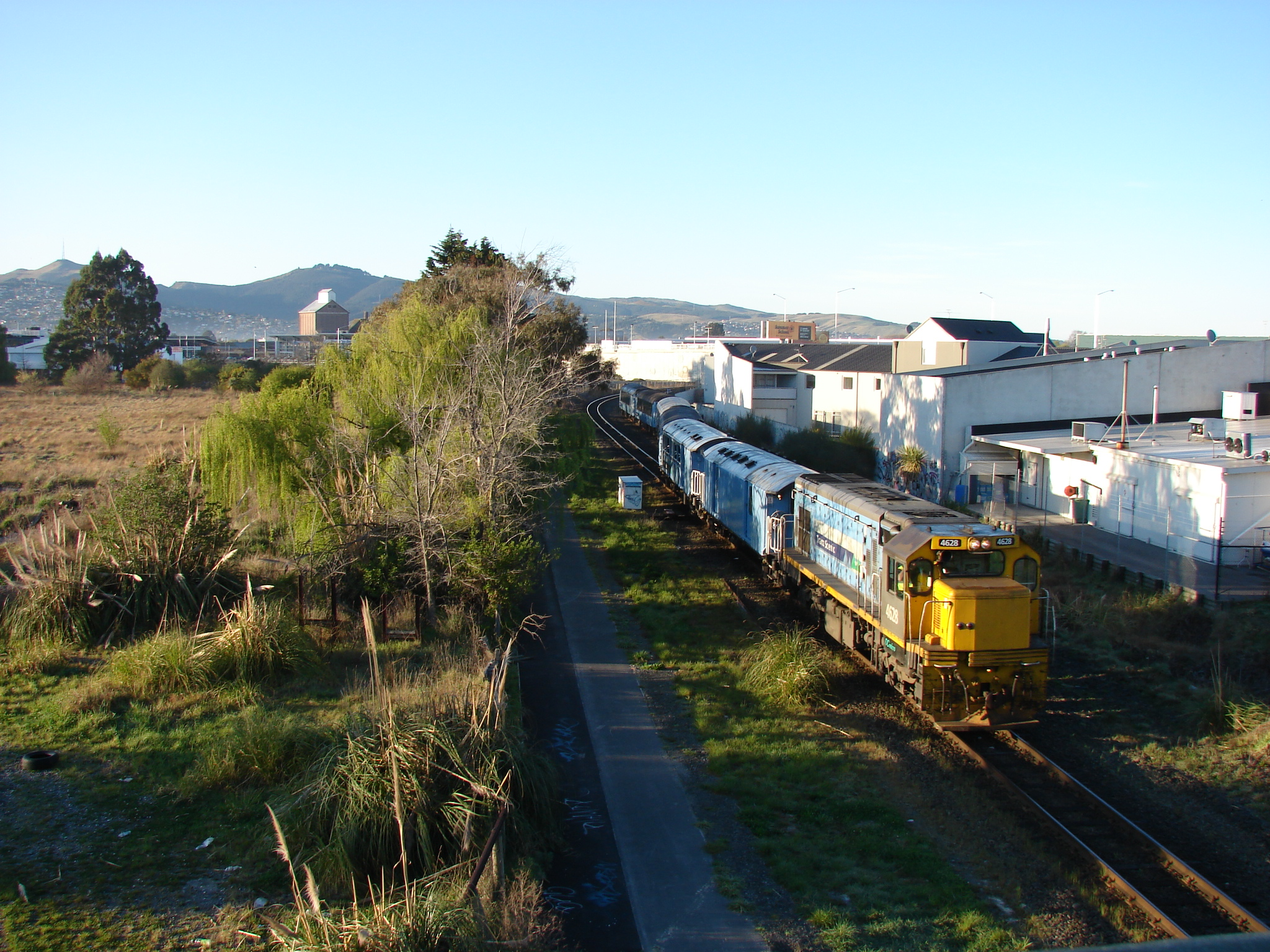 A Picton-bound TranzCoastal service (train #0700), heading north from Christchurch station. Photographed by Matthew25187 on en:2007-09-29.